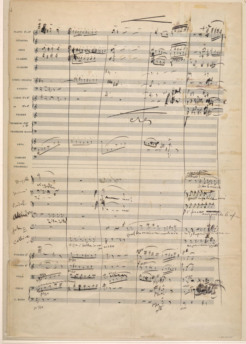 La Bohème, Act II, Sextet. Manuscript in Puccini's handwriting, page 1 of 2.